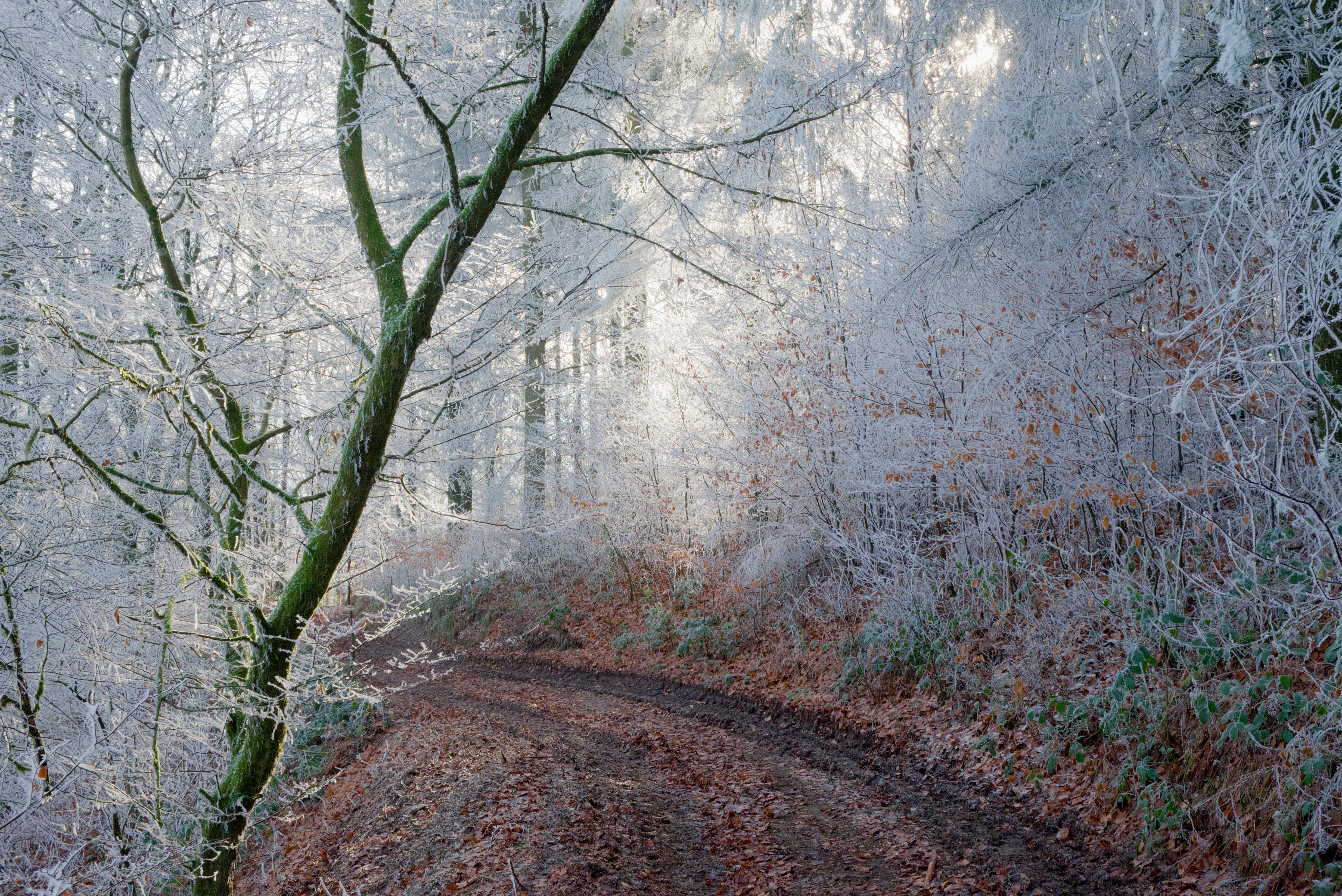 Rimy trees along the GR-16 between Membre and Vresse-sur-SemoisTiếng Việt: Đường đi dạo trong rừng gần thị trấn Vresse-sur-Semois (Bỉ) vào mùa đông